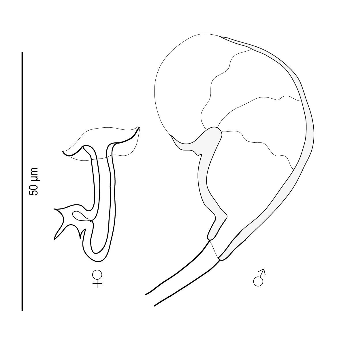 Pseudorhabdosynochus caledonicus Justine, 2005 (Monogenea, Diplectanidae) a parasite of the grouper Epinephelus fasciatus (Perciformes, Serranidae) off New Caledonia. Male and female sclerotised organs, used for differentiating this species. Original line drawing. Species described in article: Justine, 2005, Systematic Parasitology 62, 1-37. Preview See Pseudorhabdosynochus caledonicus body.jpg for whole body of same species.